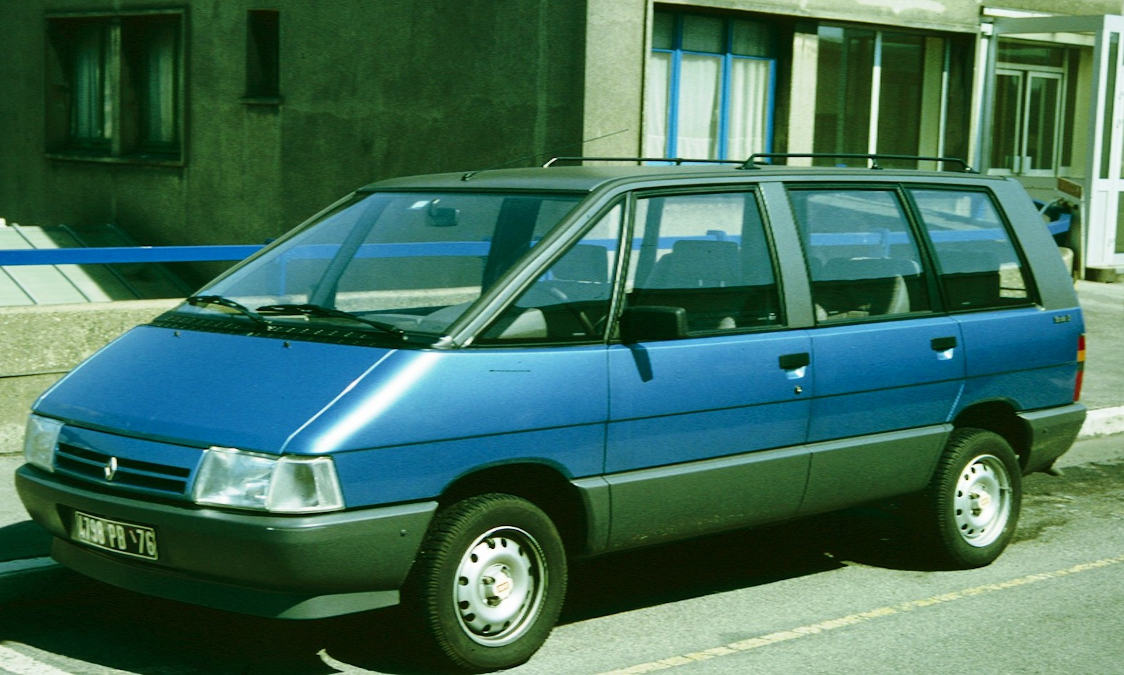 Renault Espace 1 in the late part of the model's life (2nd cycle)